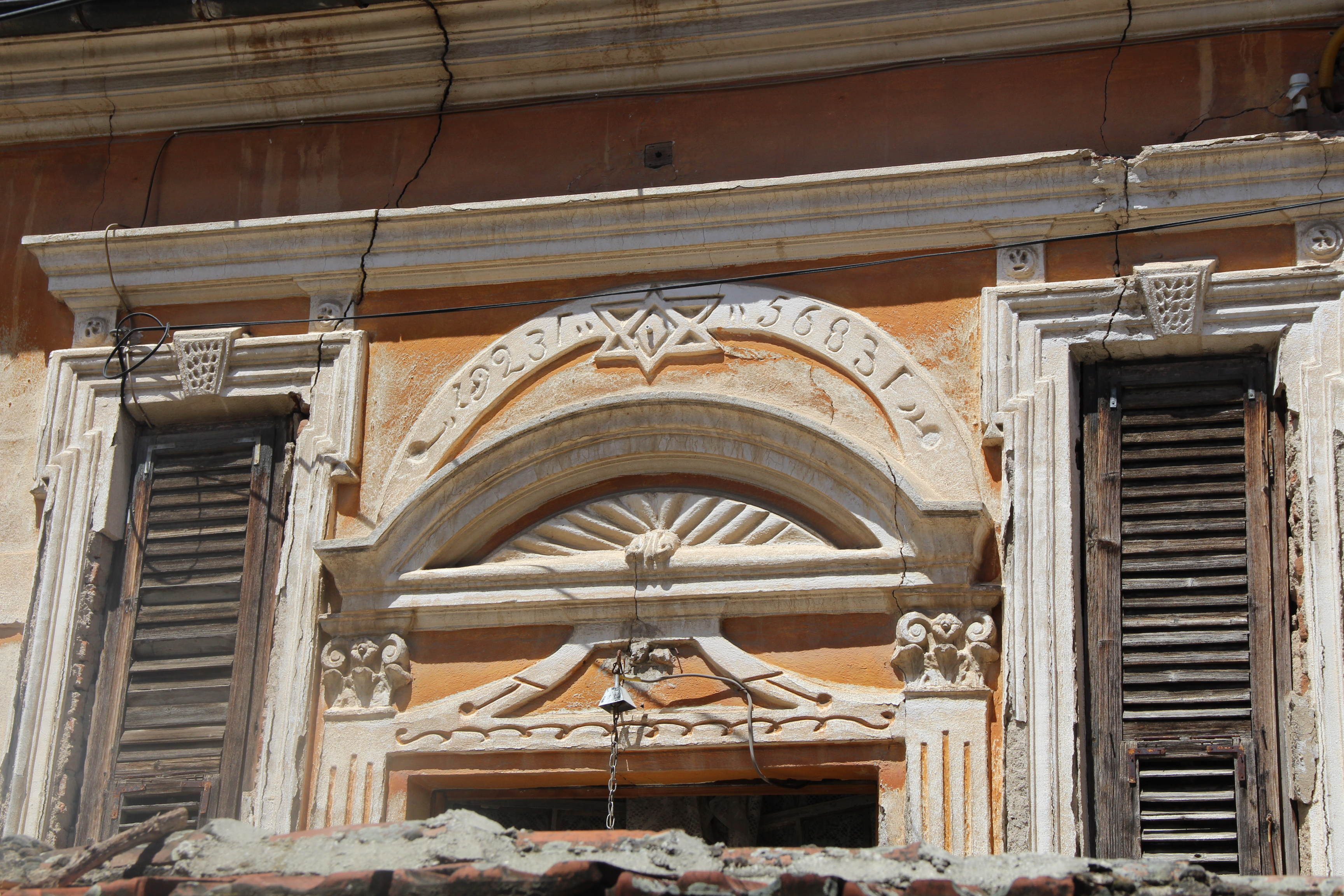 Deserted jewish house star of david and the year 5683 (1923)